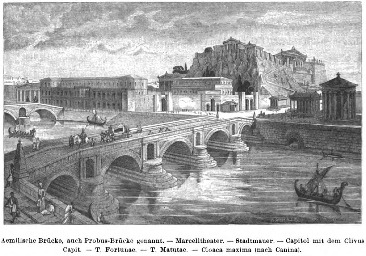 Reconstruction drawing of the Pons Aemilius (Ponto Rotto)